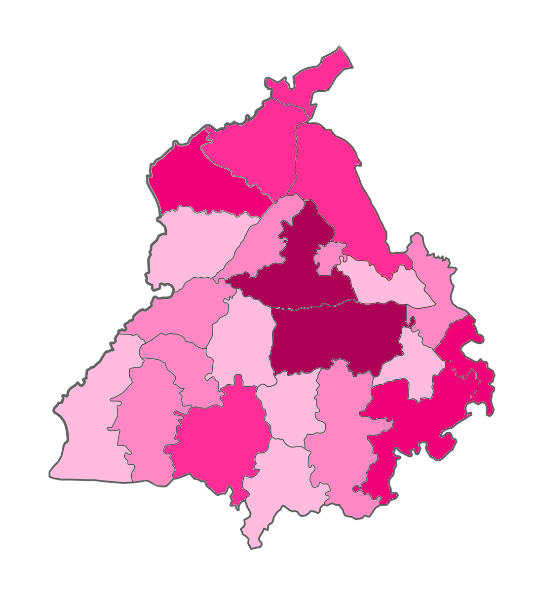 COVID-19 Outbreak Cases in Punjab, India